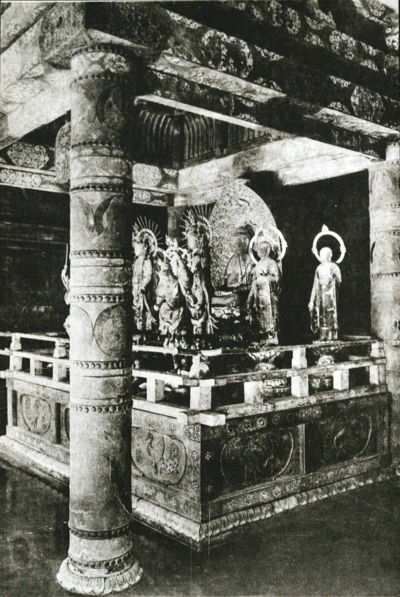 Interiar of Golden Hall, Alterpieces, Chūson-ji, Hiraizumi, Iwate, Japan, 12th century